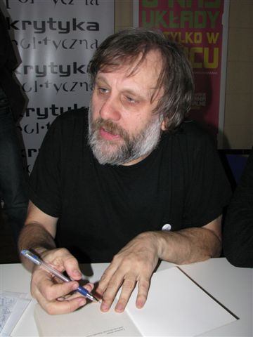 Slavoj Žižek (b. 1949) - Slovenian philosopher, Lacanian Marxist sociologist, psychoanalyst, and cultural critic